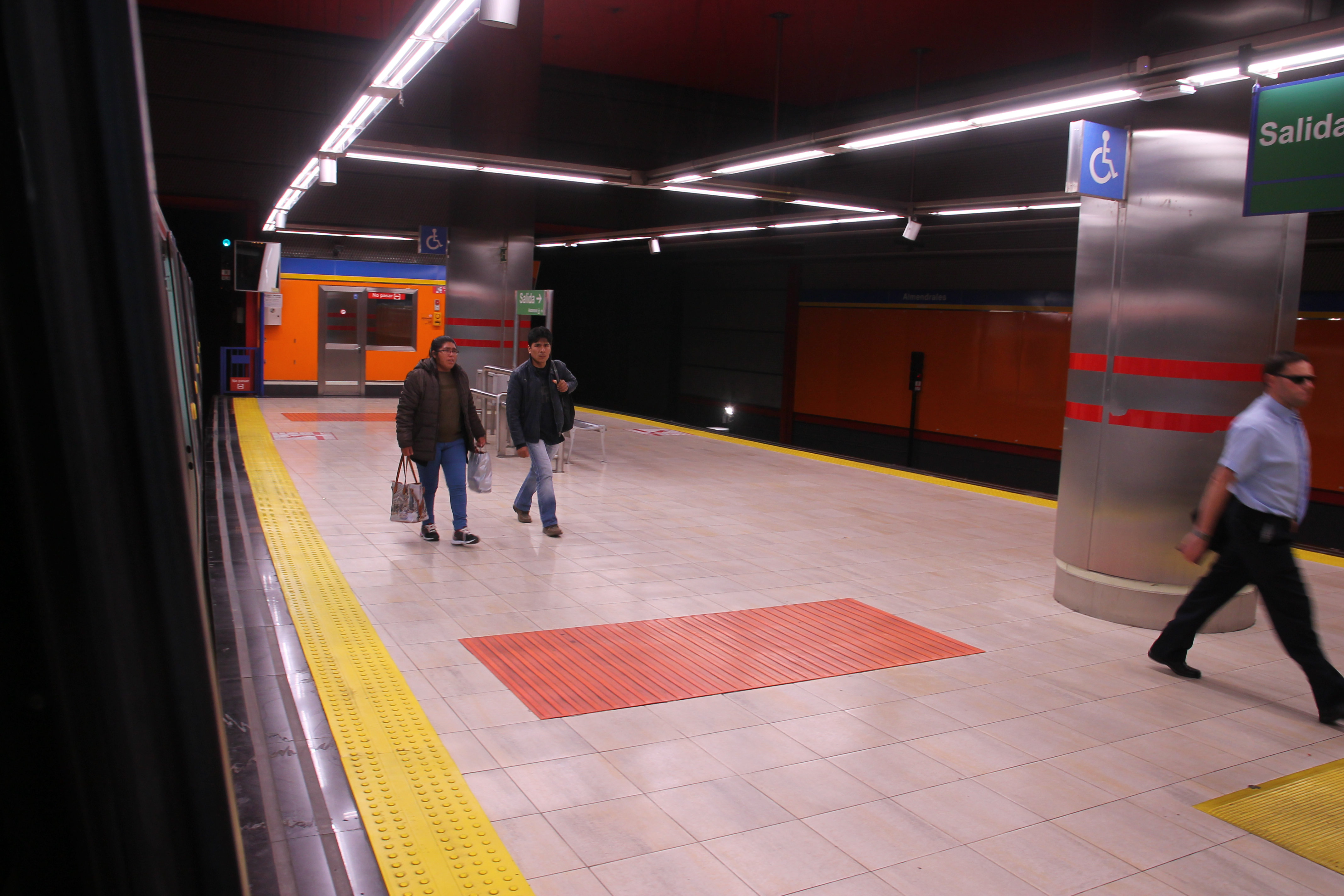 Almendrales station, Madrid Metro